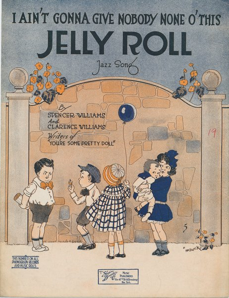 "I Ain't Gonna Give Nobody None o' This Jellyroll" "Jazz Song" sheet music cover. 1919 sheet music; tune by Clarence Williams and Spencer Williams.